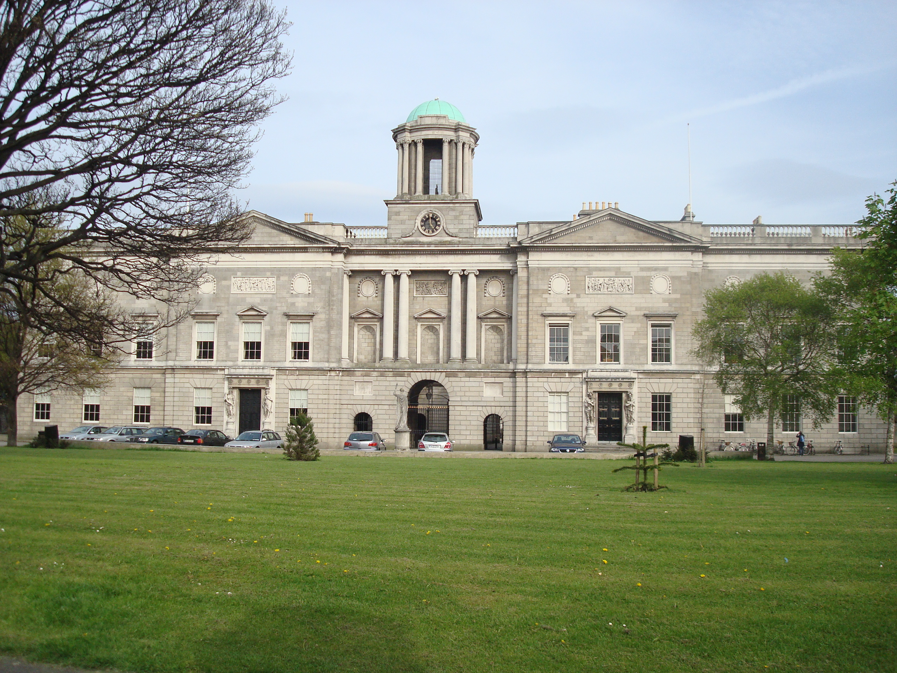 Honorable Society of King's Inns, Dublin